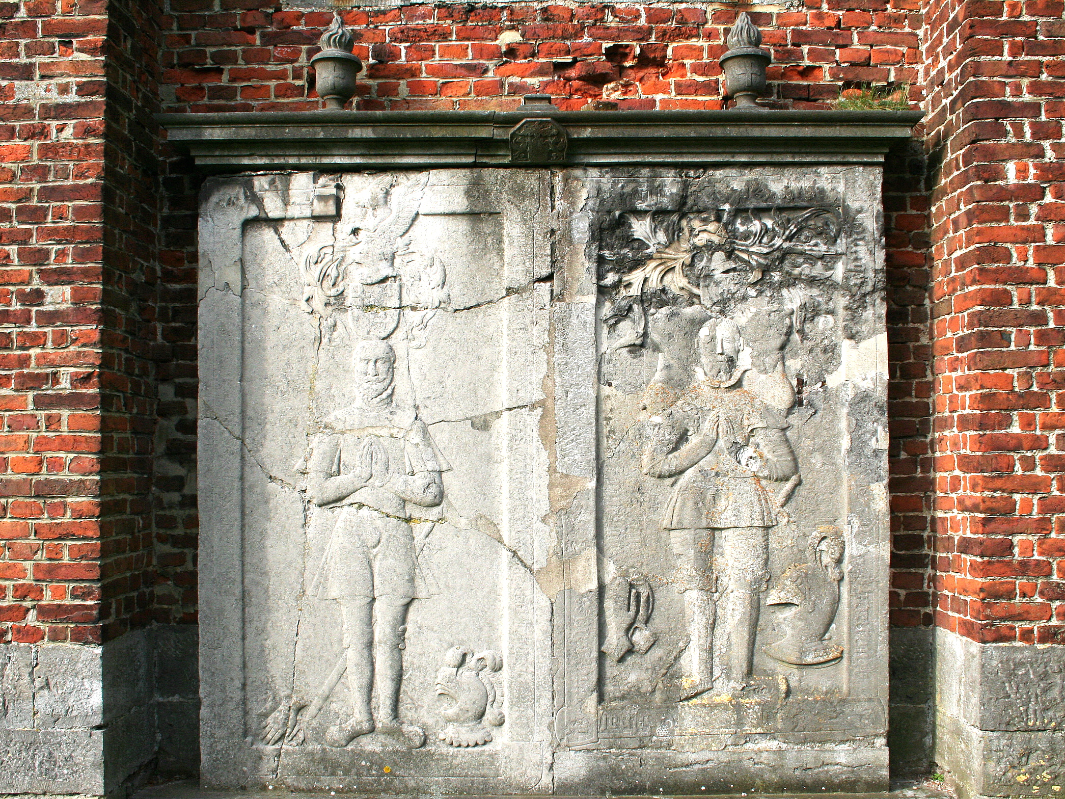 Thoricourt (Belgium), funerary stele of the Obert de Thieusies Viscounts placed on the southern external choir wall of Holy Virgin church.